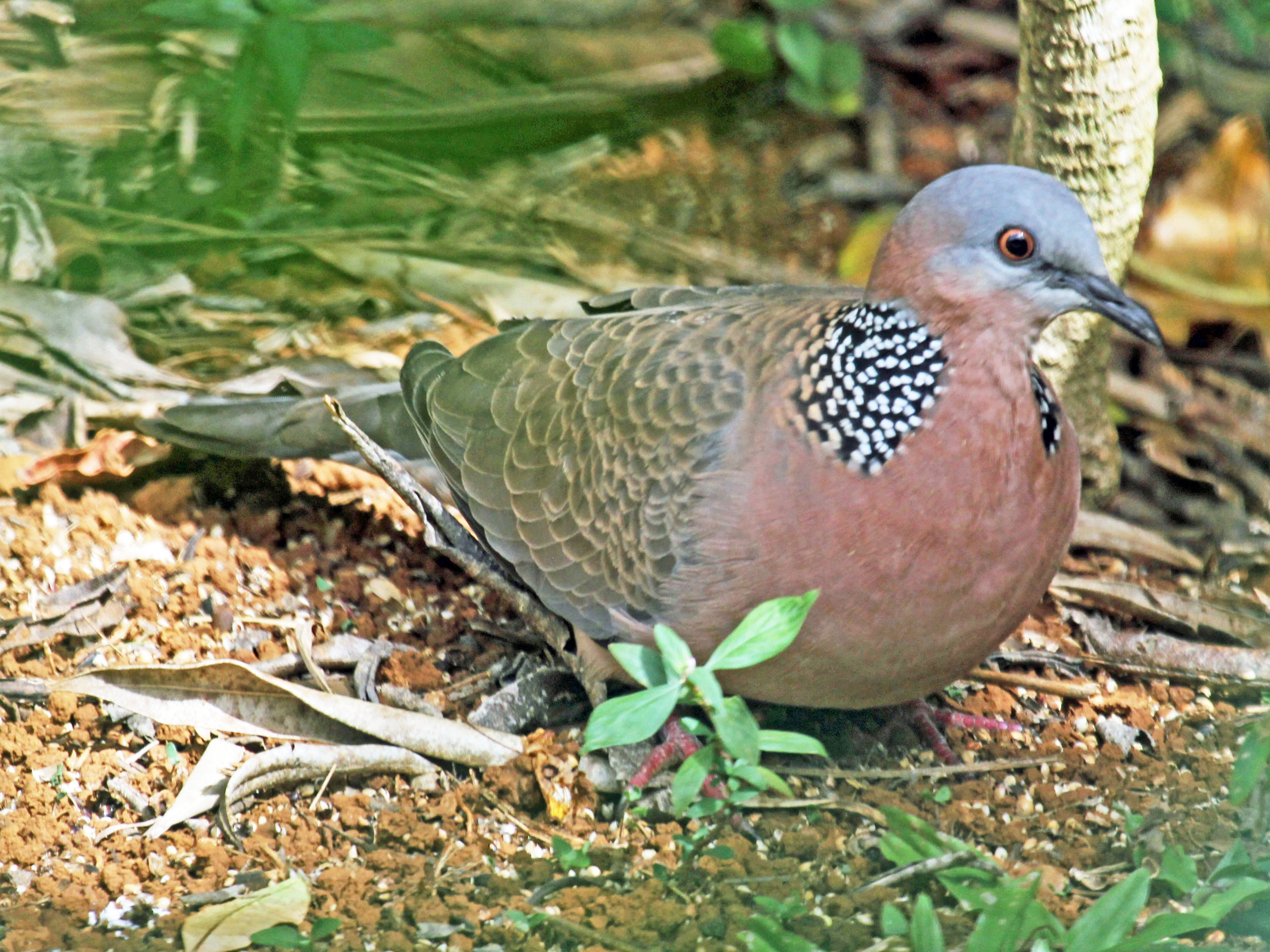 Spotted Dove (Streptopelia chinensis or Spilopelia chinensis), also known as the Spotted Turtle Dove - Kauai, Hawaii